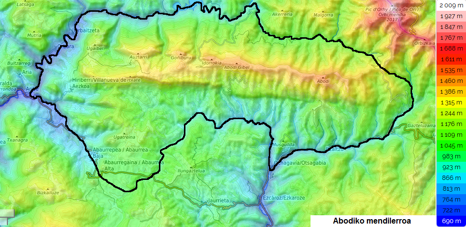 Topographic map showing the Abodi Range.